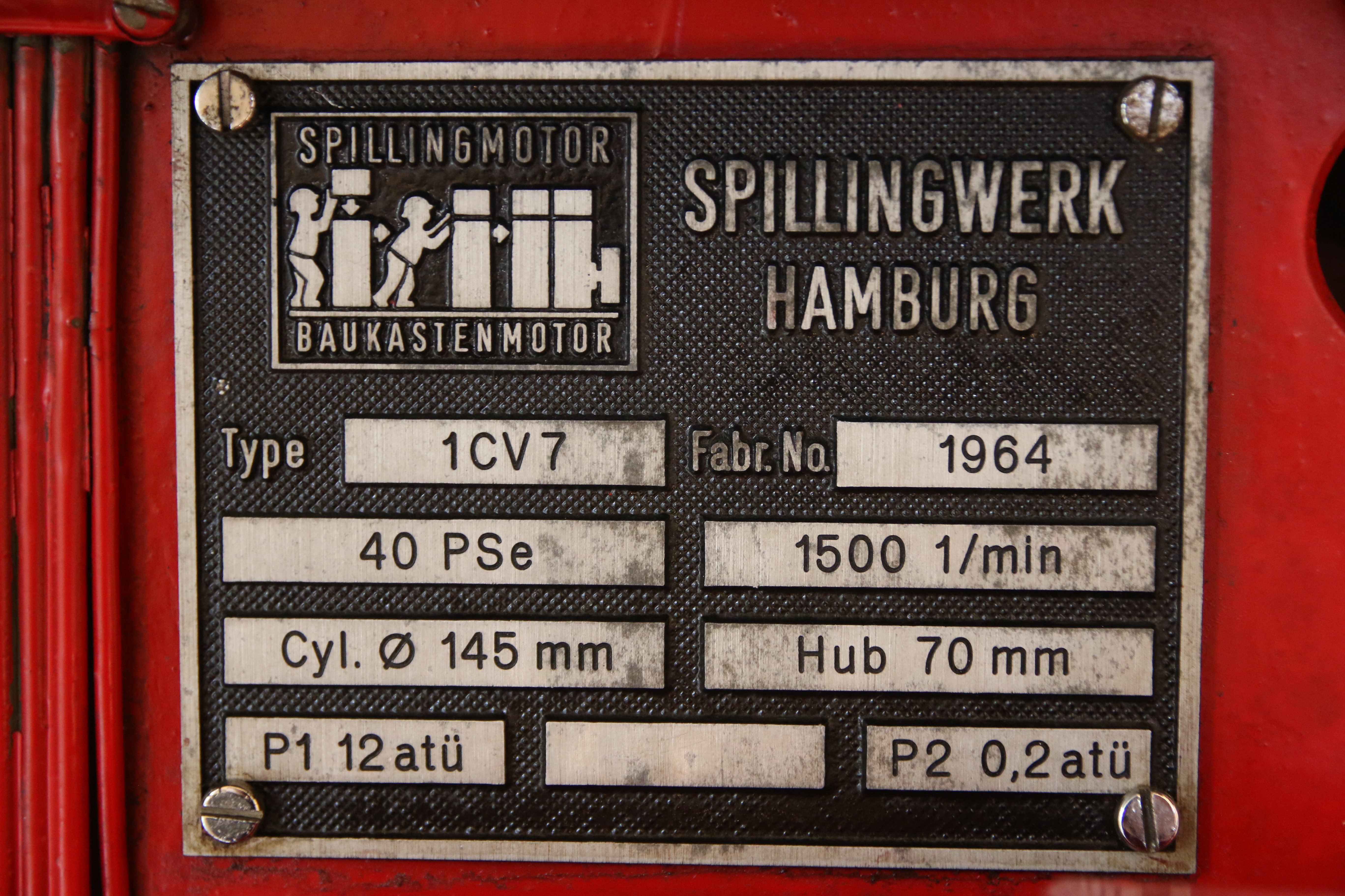 Type plate of a steam engine made by the Spillingwerk, Hamburg It is not permitted to use this file in the English language Wikipedia.